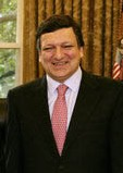 President George W. Bush stands with European Union leaders in the Oval Office. From left are: Javier Solana, Foreign Policy Chief of the European Union; Jean-Claude Juncker, European Union President; President Bush, and EU Commission President José Manuel Durão Barroso.